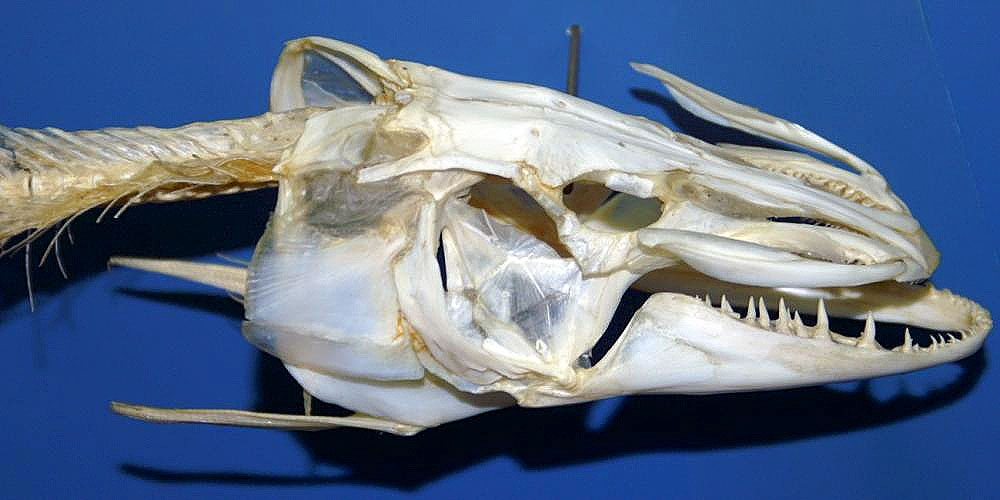 Location taken: Smithsonian National Museum of Natural History. Names: Esox reichertii Dybowski, 1869, Almindelig Gedde, American Pike, Amur pike, Amurgädda, Amurgedde, Amurhecht, Amurskaya shchuka, Bayağı turna balığı, Bec, Bec De Canard, Becquet, Beked, Blackspotted pike, Brochet, Brochet Commun, Brochet De Mer, Brochet Du Nord, Brochet Europ, Brochet européen, Brotchet, Brouch, Brouché, Brouchet, Brouchetta, Buch, Buché, Bunthecht, Cinosa, Cinoseo, Cinus, Cinusèw, Colibrí de Eloísa, Common Pike, Csuka, Europ, Europäischer hecht, Europinė lydeka, Ezoko, Flu, Flußhecht, Gädda, Gedda, Gedde, Gjedde, Grand Avaleur, Grand Brochet, Grashecht, Great Lakes Pike, Great Northern Pickerel, Great Northern Pike, Haug, Hauki, Hávga, Hecht, Hechten, Heekt, Heichit, Hengste, Hiulik, Höcht, Hommelkolibrie, Idl, Idlûlukak, Ihok, Jack, Jackfish, Kawakamasu, Kikiyuk, Kiqy, Kiqyôq, Lanceron, Lancerons, Lidaka, Liede, Lius, Lluç de riu, Luccio, Lúcio, Lúcio-do-Pacífico, Lydeka, Marlita, Northern Pearleye, Northern Pike, Northern Pike (Esox lucius), Obyknovennaya Schuka, Ordak Mahi, Or